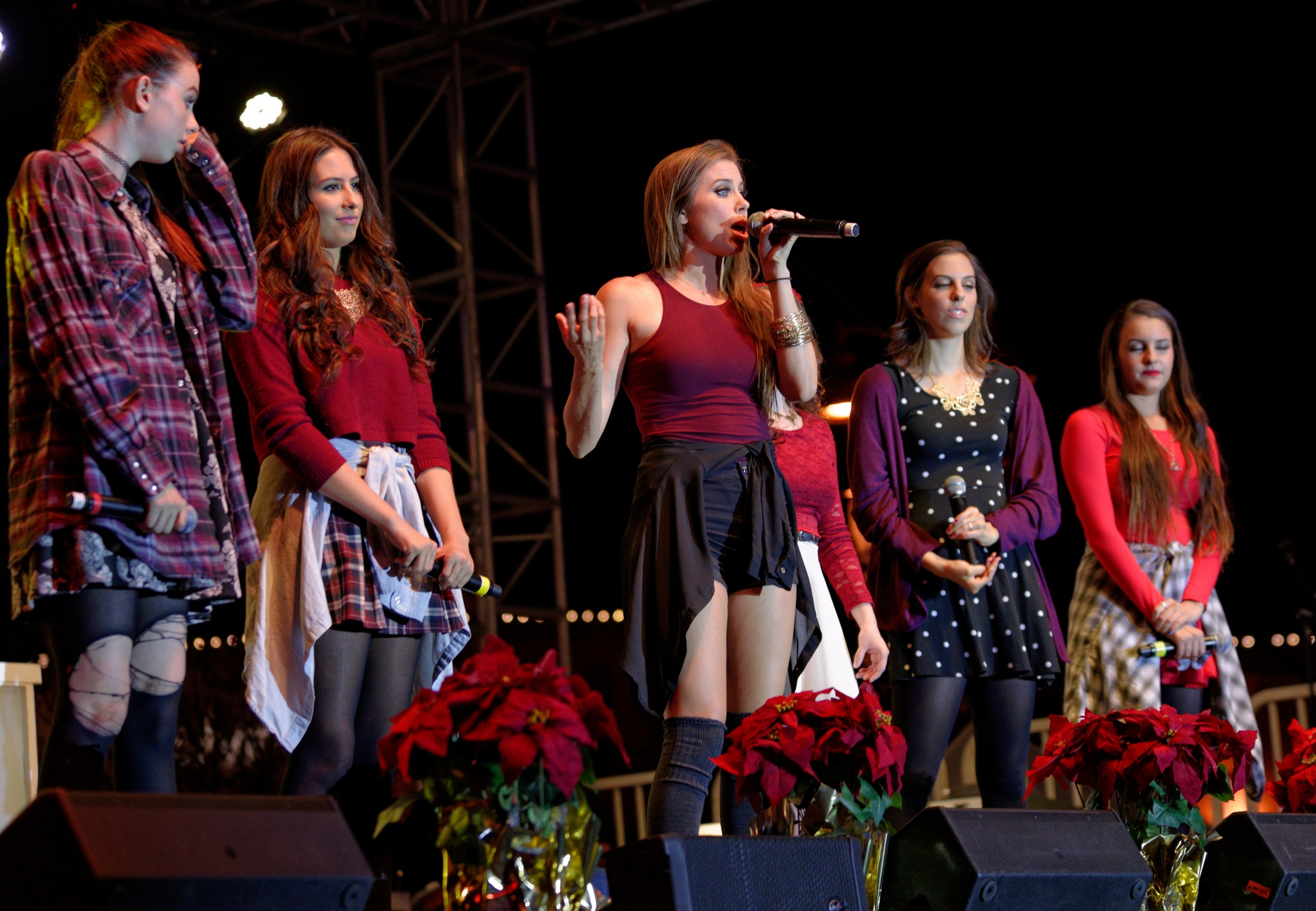 Cimorelli performing at the Citadel Tree Lighting in 2014